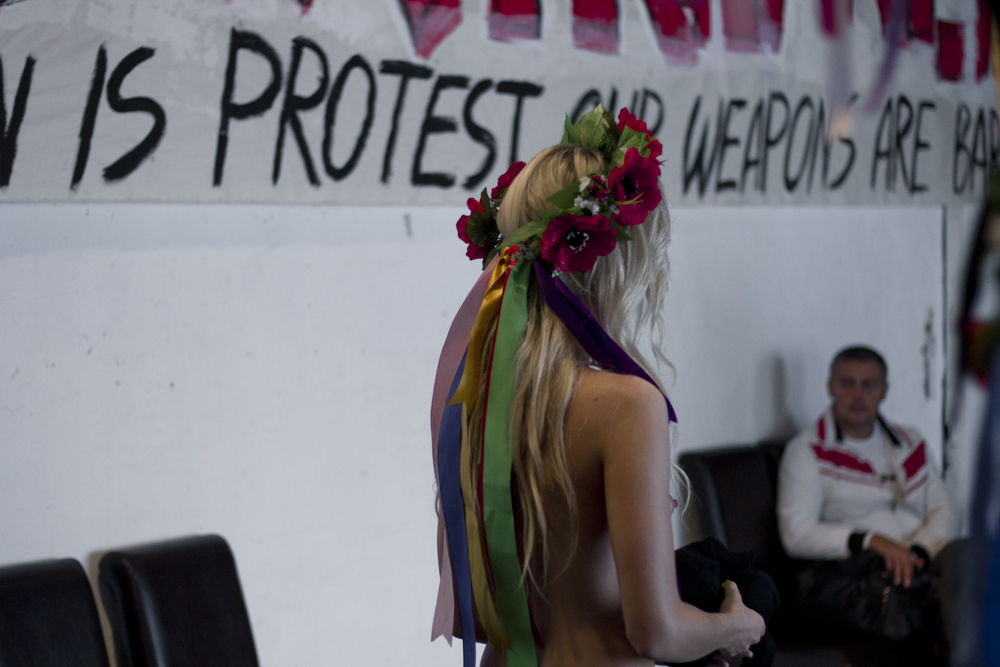 Femen in Paris - 18th sept 2012